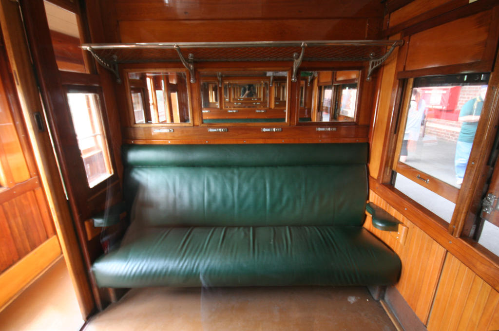 Interior of a restored Victorian Railways W type carriage (BE second class)